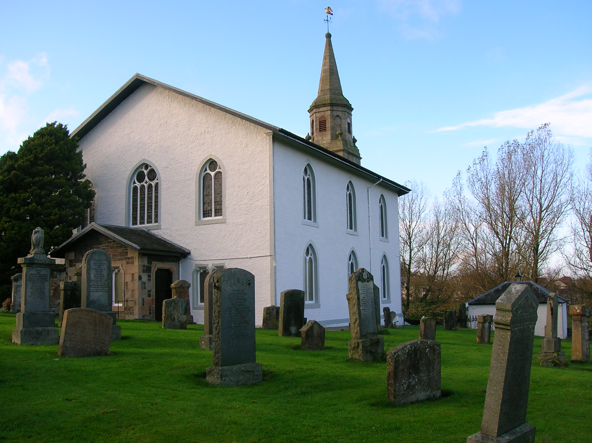 Eaglesham Parish church from the cemetery, East Renfrewshire, Scotland.